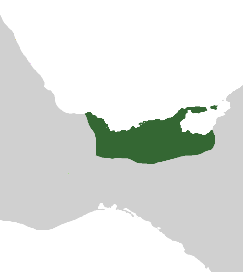 Tavasco or Tabasco approximate area circa AD 1519.